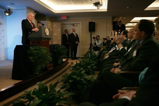 Vice President Dick Cheney delivers his remarks on the war on terror, arguing against a withdrawl from Iraq, during a speech, Monday Nov. 21, 2005, to the American Enterprise Institute. White House photo by David Bohrer